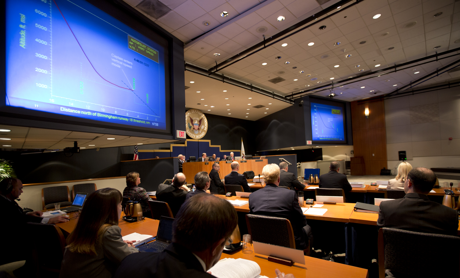 NTSB board meeting on the crash of UPS flight 1354, which crashed in Birmingham, Ala., on Aug. 14, 2013